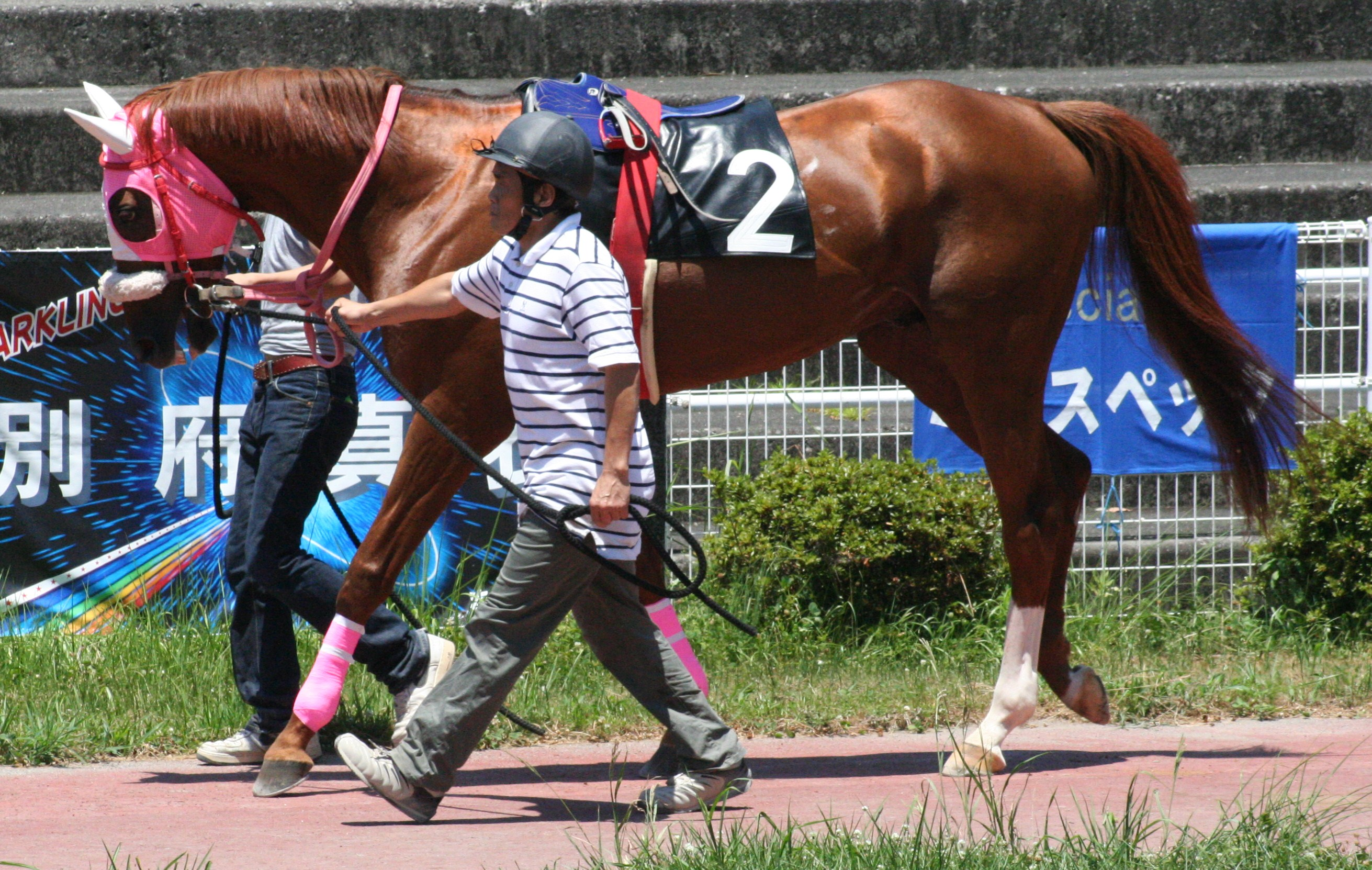 Escape Hatch(Horse, Kochi Racecourse)